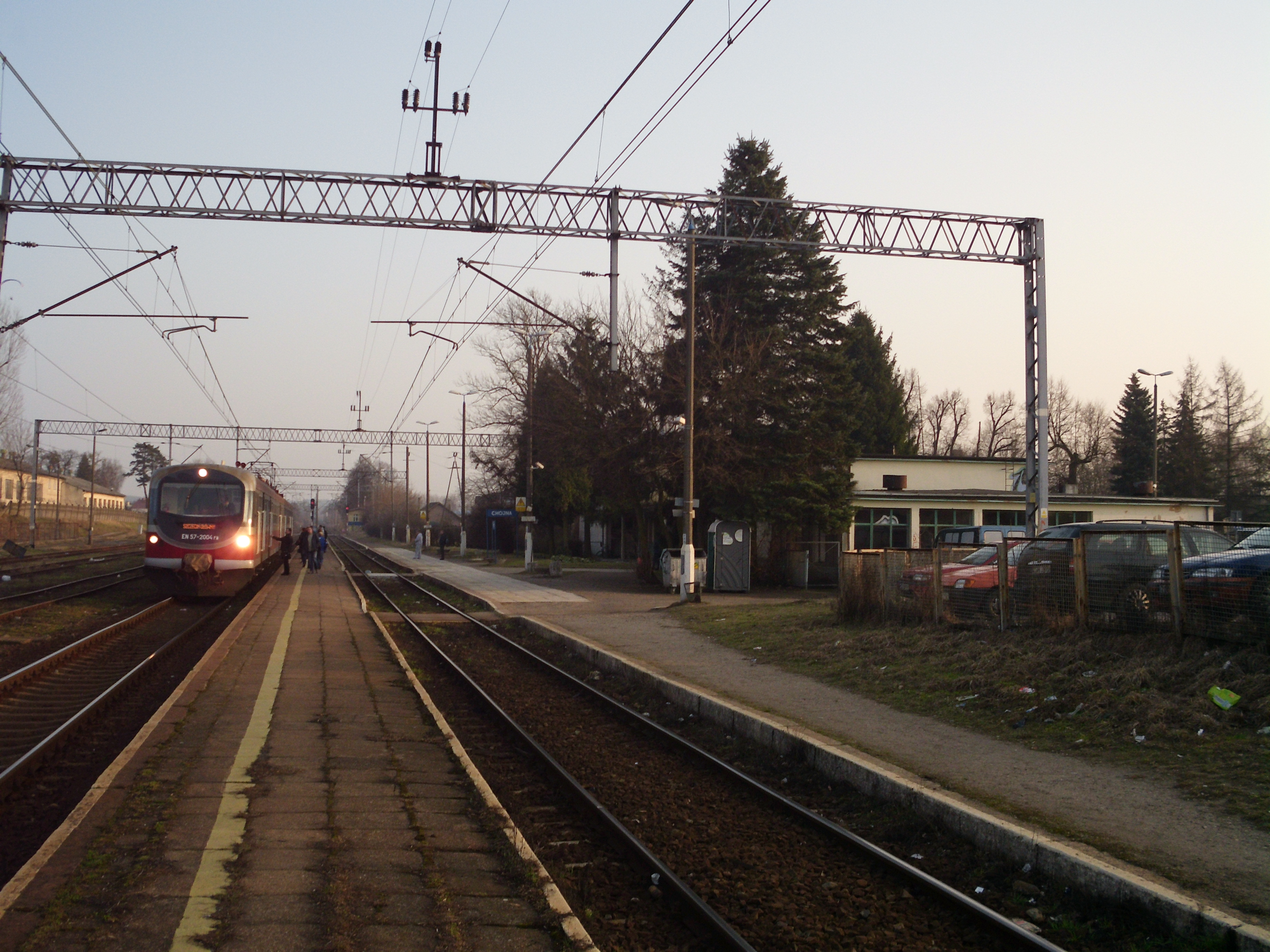 Train (a modernized PKP class EN57) arriving at a station in Chojna, Poland